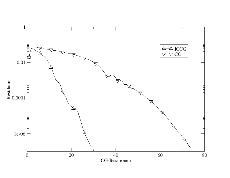 Comparison of ICCG with CG for a 2D-Poisson-Problem with a 50 * 50 grid using a finite difference scheme. Image created with Xmgrace.